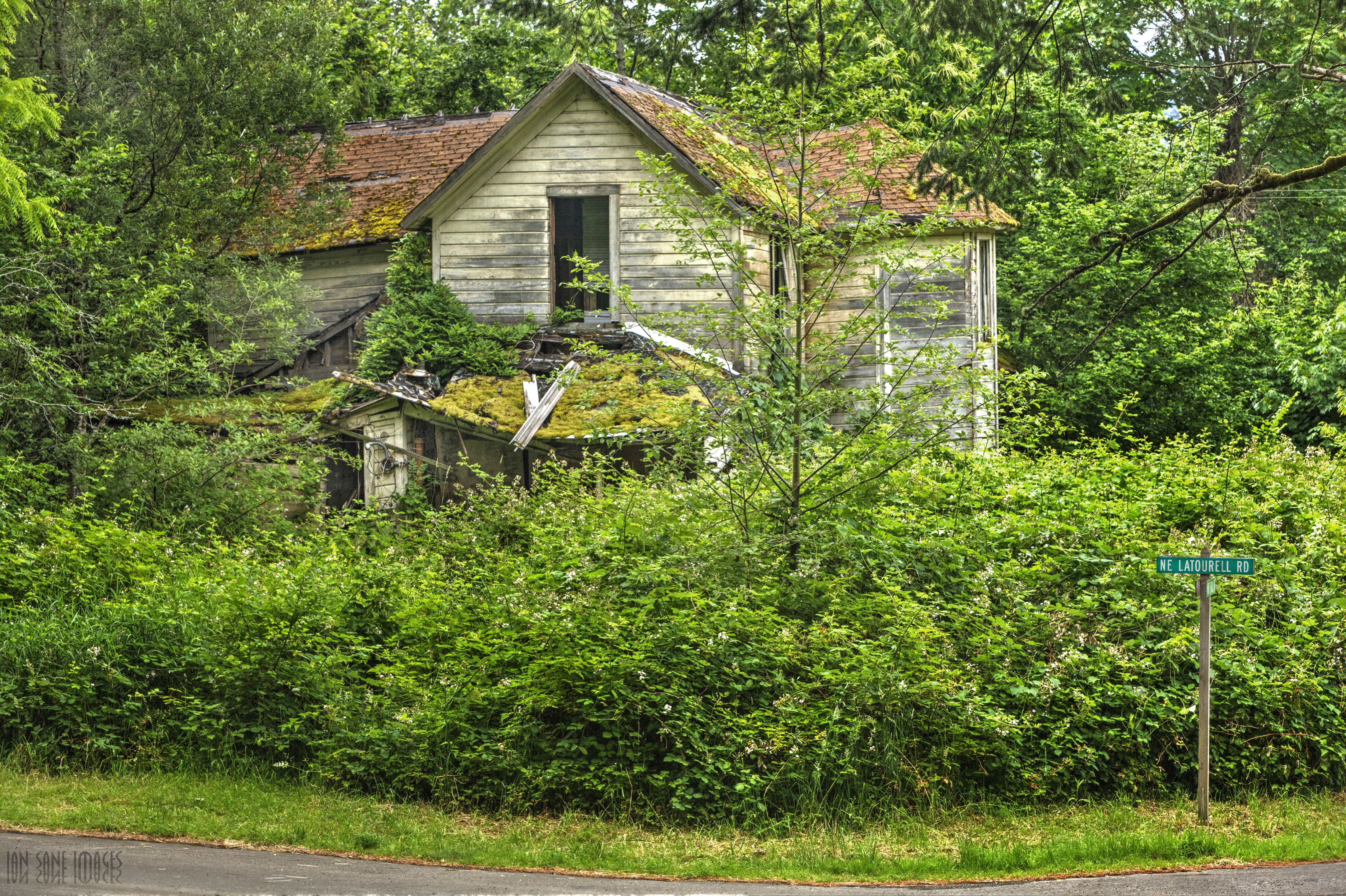 The once-thriving community of Latourell, Oregon, is located along Latourell Creek, less than half a mile downstream of Latourell Falls. The community was established in the late 1800s by Joseph Latourell and was a lumber town, railroad stop, and local gathering spot for Columbia Gorge travelers. Today the community is one of a few streets with small peaceful homes. Latourell is located at Columbia River Mile (RM) 130. Fluidr